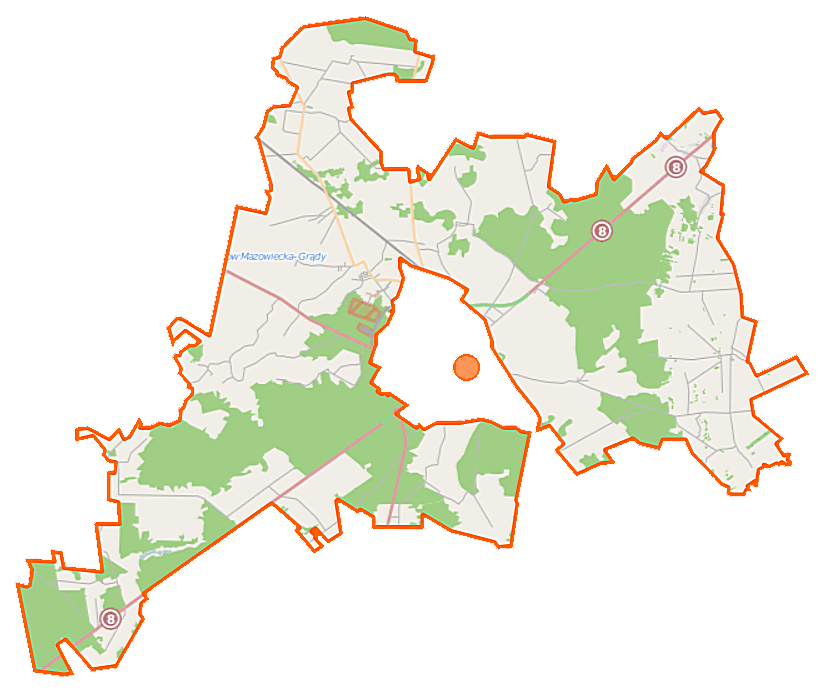 Map of Gmina Ostrów Mazowiecka, PolandThis map of Ostrów Mazowiecka (gmina wiejska) was created from OpenStreetMap project data, collected by the community. This map may be incomplete, and may contain errors. Don't rely solely on it for navigation.